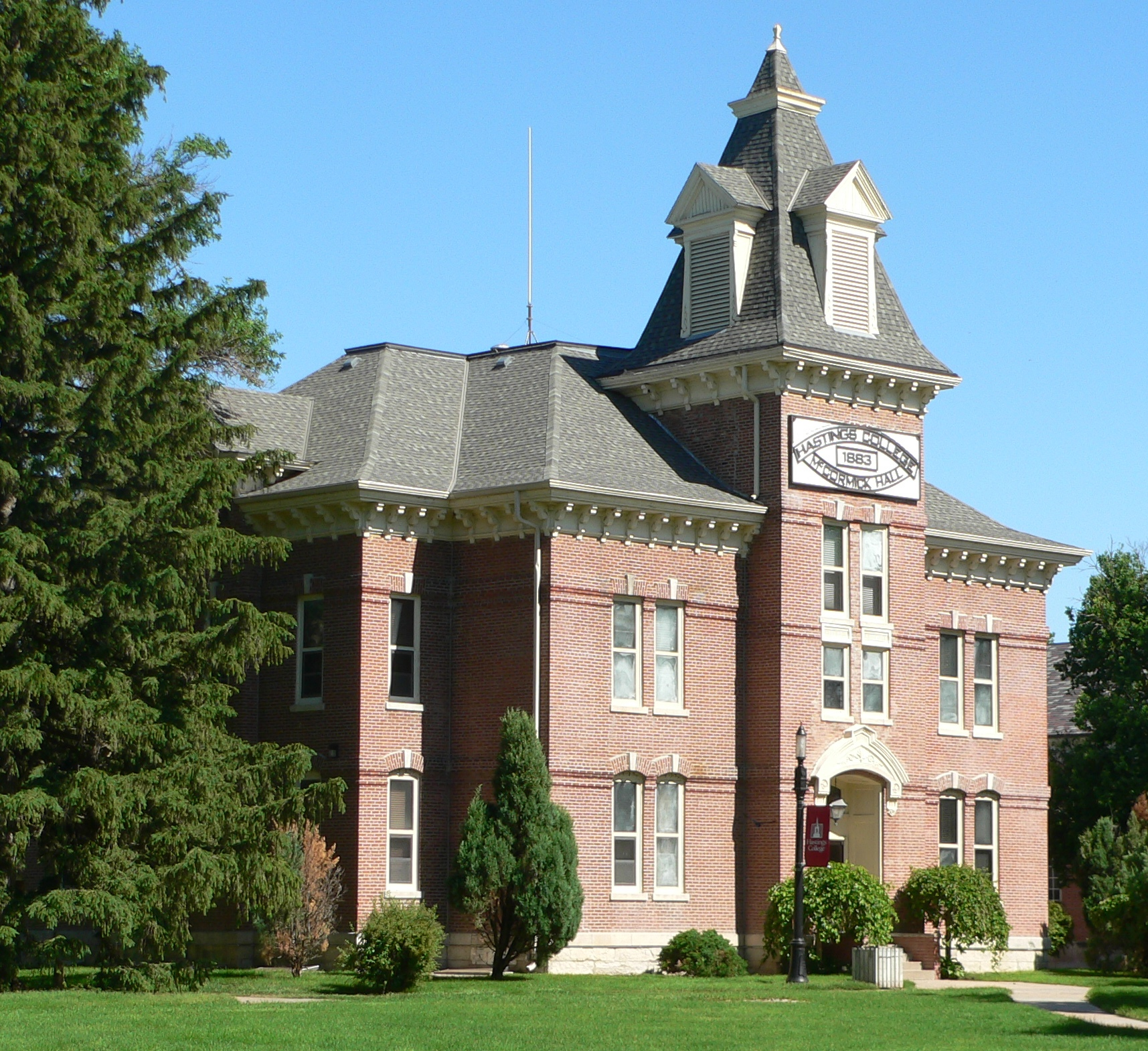 McCormick Hall, on the campus of Hastings College in Hastings, Nebraska; seen from the northwest. The Italianate building was constructed in 1883. It is listed in the National Register of Historic Places.